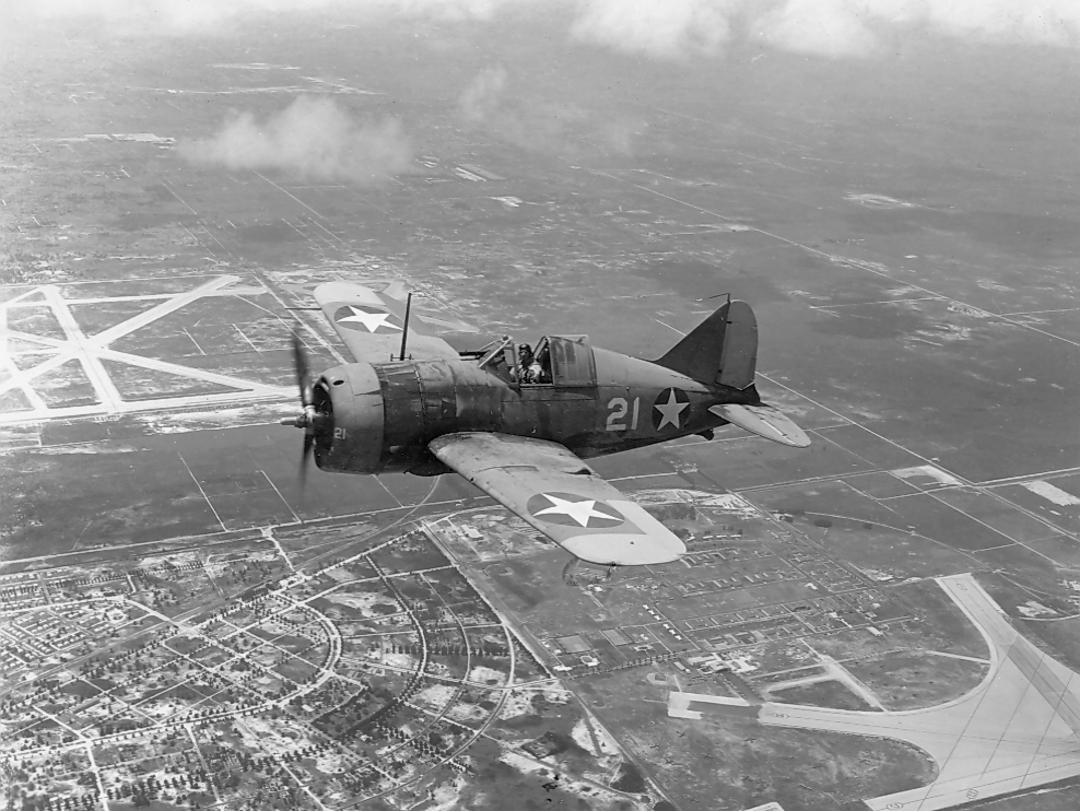 A U.S. Navy Brewster F2A-3 fighter pictured during a training flight from Naval Air Station Miami, Florida (USA), in August 1942. The plane was piloted by LCdr. Joseph C. Clifton.